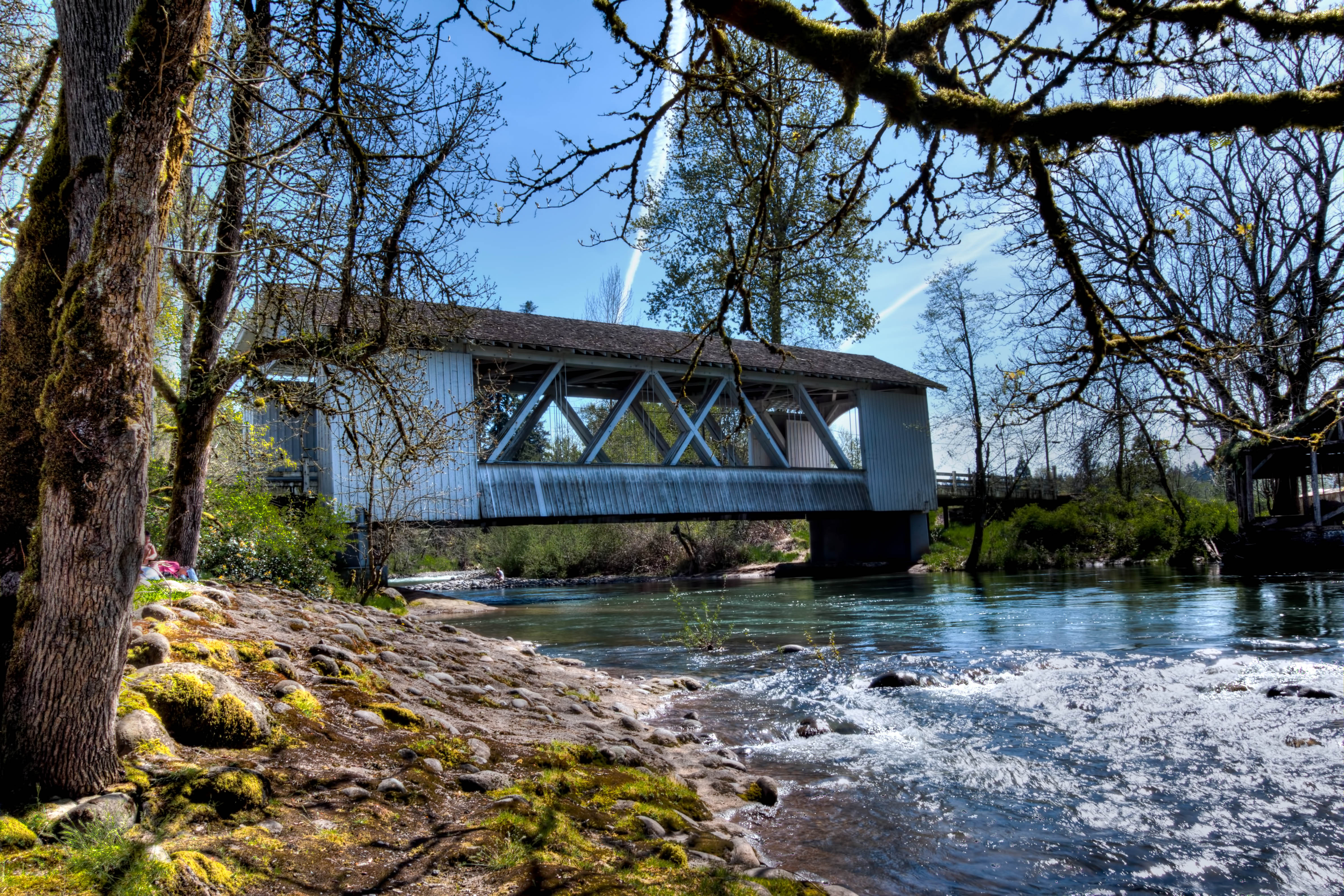 Larwood Bridge, built in 1939 and repaired in 2002, crosses Crabtree Creek at Larwood Wayside Park, about 3 miles (5 km) north of Lacomb, Oregon, in the United States. The 105-foot (32 m) covered bridge carries Fish Hatchery Road over the water.